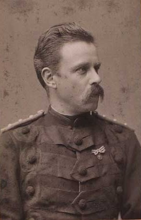 Axel Theodor Liljefalk (1848-1915), Danish army officer